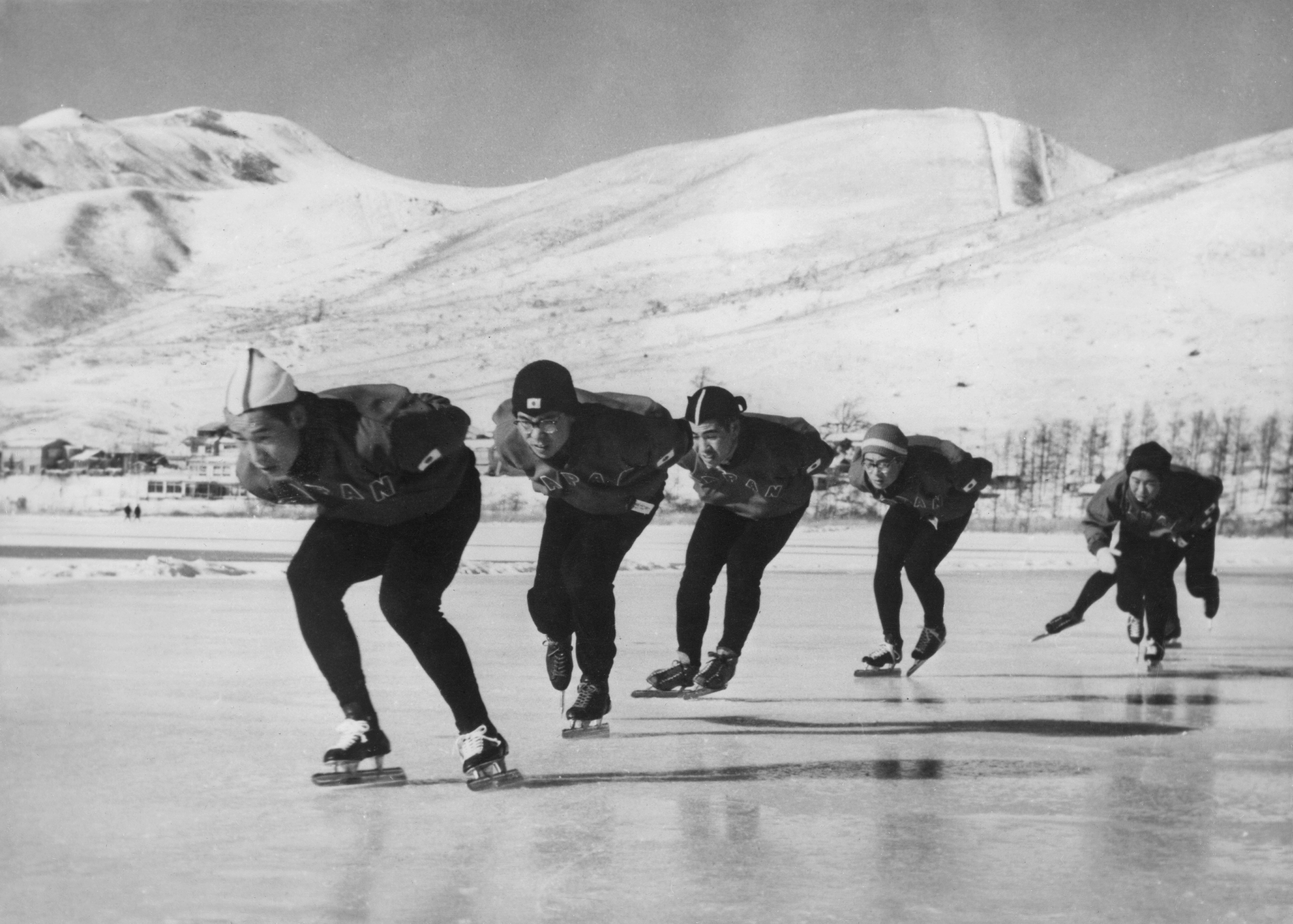 The Japanese Olympic speed skating team train on a lake in preparation for the Squaw Valley 1960 Winter Olympics, Hokkaido, Japan, 31st December 1959. (Photo by Keystone/Hulton Archive/Getty Images)